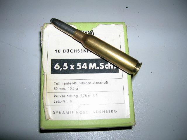 6,5x54 Mannlicher Schönauer rifle centerfire cartridge